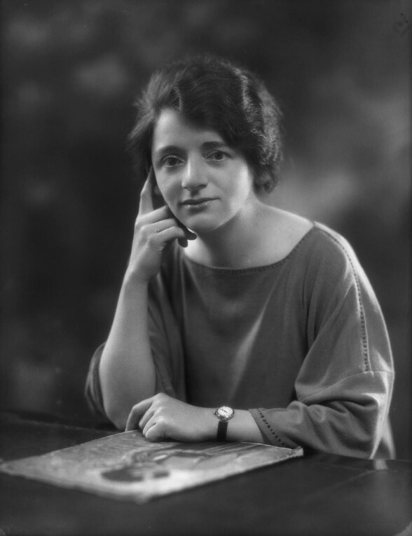 Ellen Cicely Wilkinson by Bassano Ltd., whole-plate glass negative, 25 June 1924 Given by John Morton Morris, 2004, Photographs Collection NPG x127853